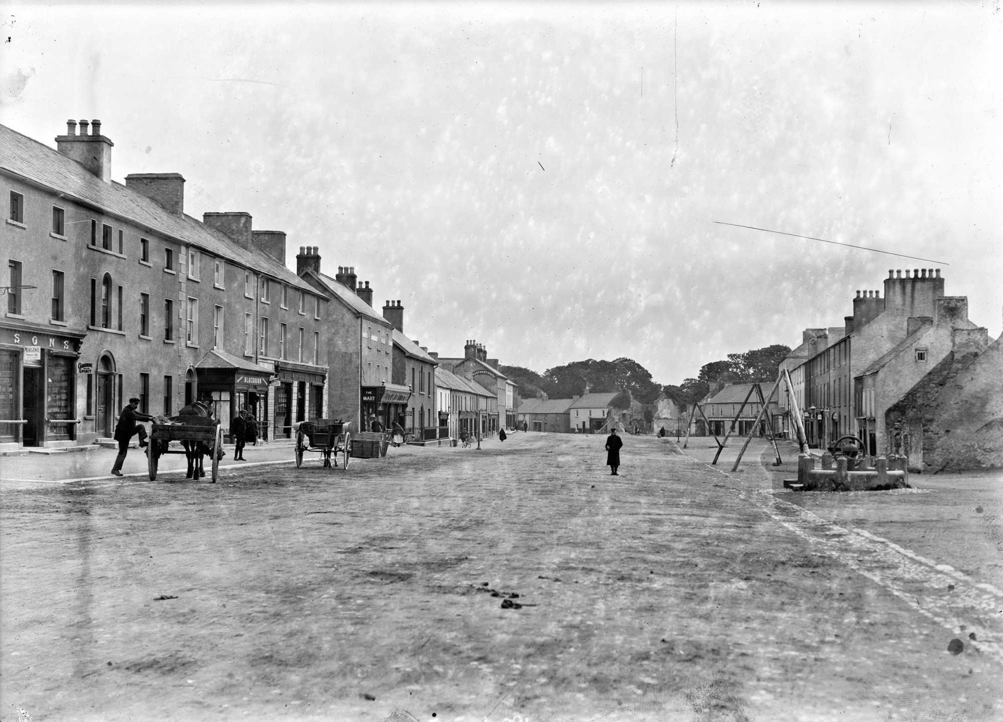 Moate, Co. Westmeath has a long and noble main street and it is well captured in this fine Eason shot! We have some of the usual suspects standing about but for me the pose of the man about to climb onto the cart is BIZ! There are no shortage of chimney pots on view and I am sure turf/peat was the staple diet for the fireplaces thereabouts? Fógra: There will be a guided tour of the Photo Detectives Exhibition, tomorrow Wednesday 29th November at 11 am. This tour will take approx. 45 minutes and is free to the public. It will help bring this outstanding exhibition to life for those who attend. Please pass the word to any who may be interested? Photographer: Unknown Collection: Eason Photographic Collection Date: Catalogue range c.1900-1939 NLI Ref: EAS_4091 You can also view this image, and many thousands of others, on the NLI’s catalogue at